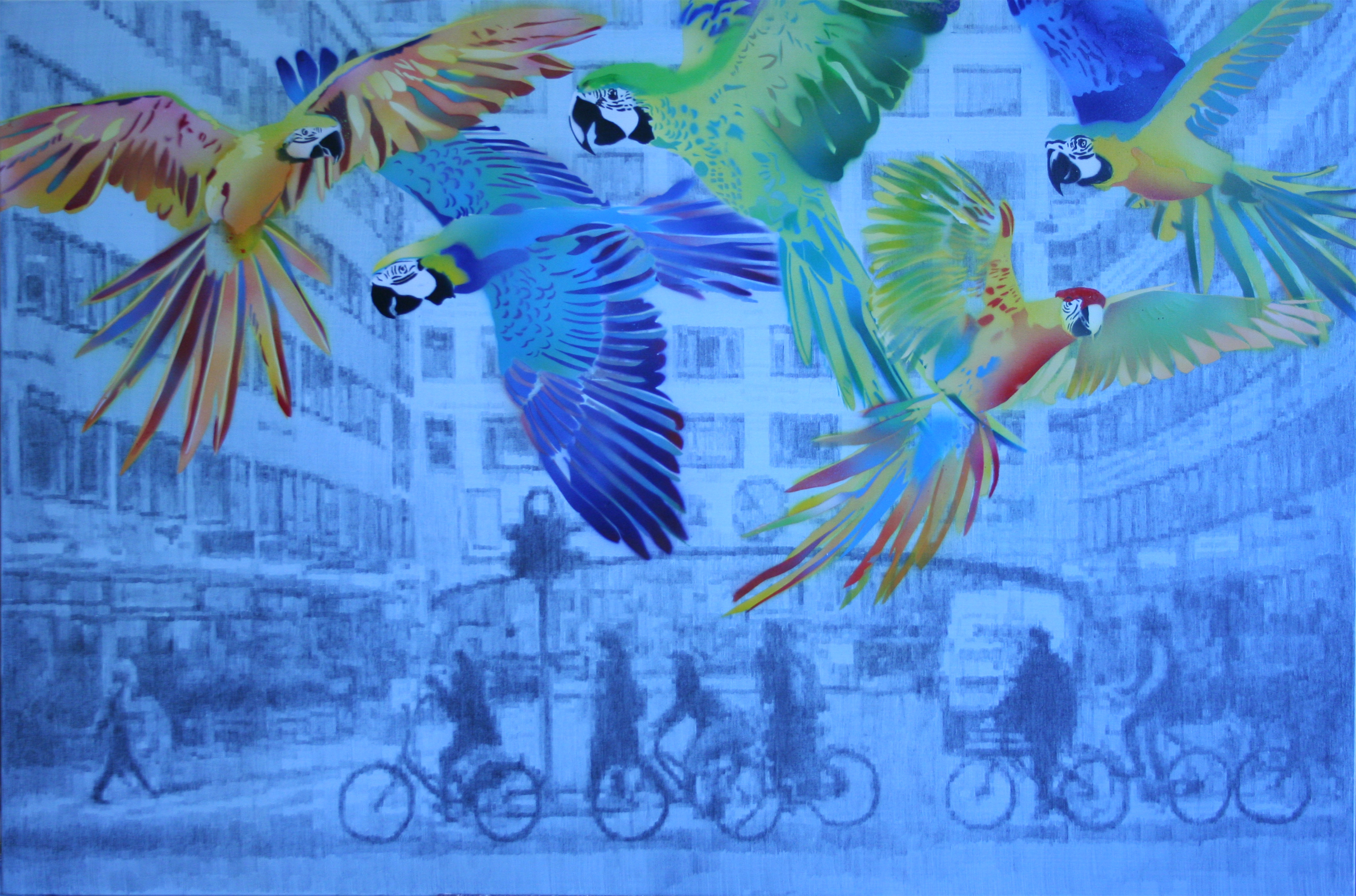 Interception, 120x180, acrylic, pencil, spray paint, 2020